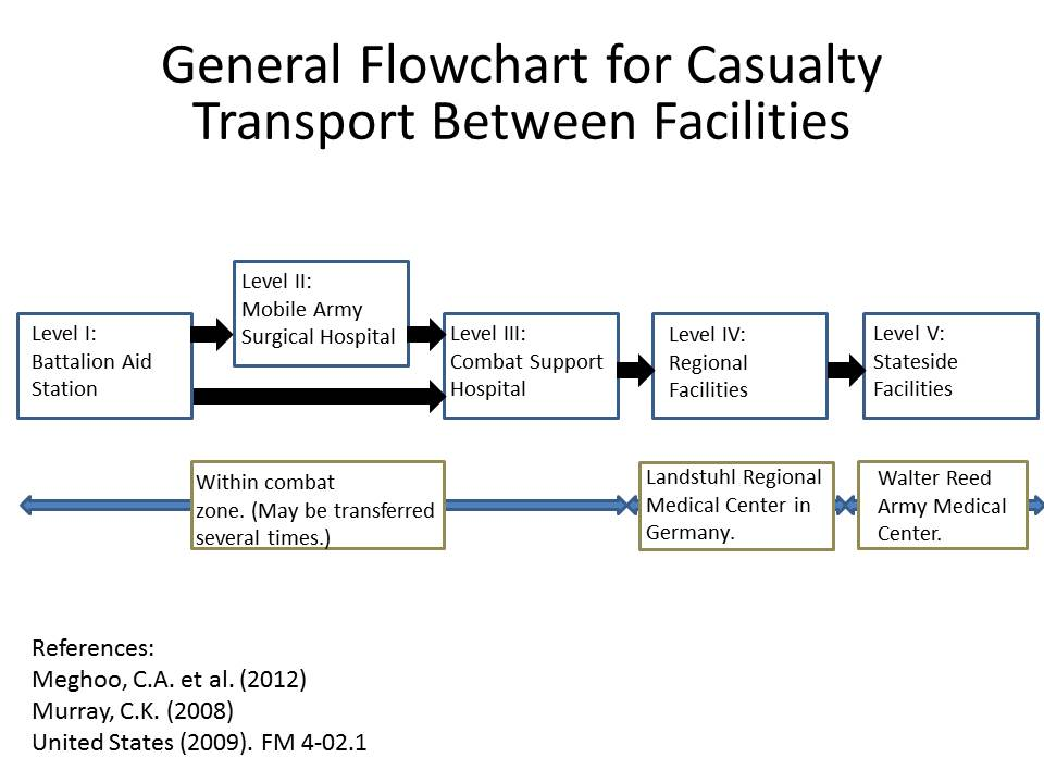 This image is a general flowchart of the movement of injured U.S. soldiers between different facilities for treatment.